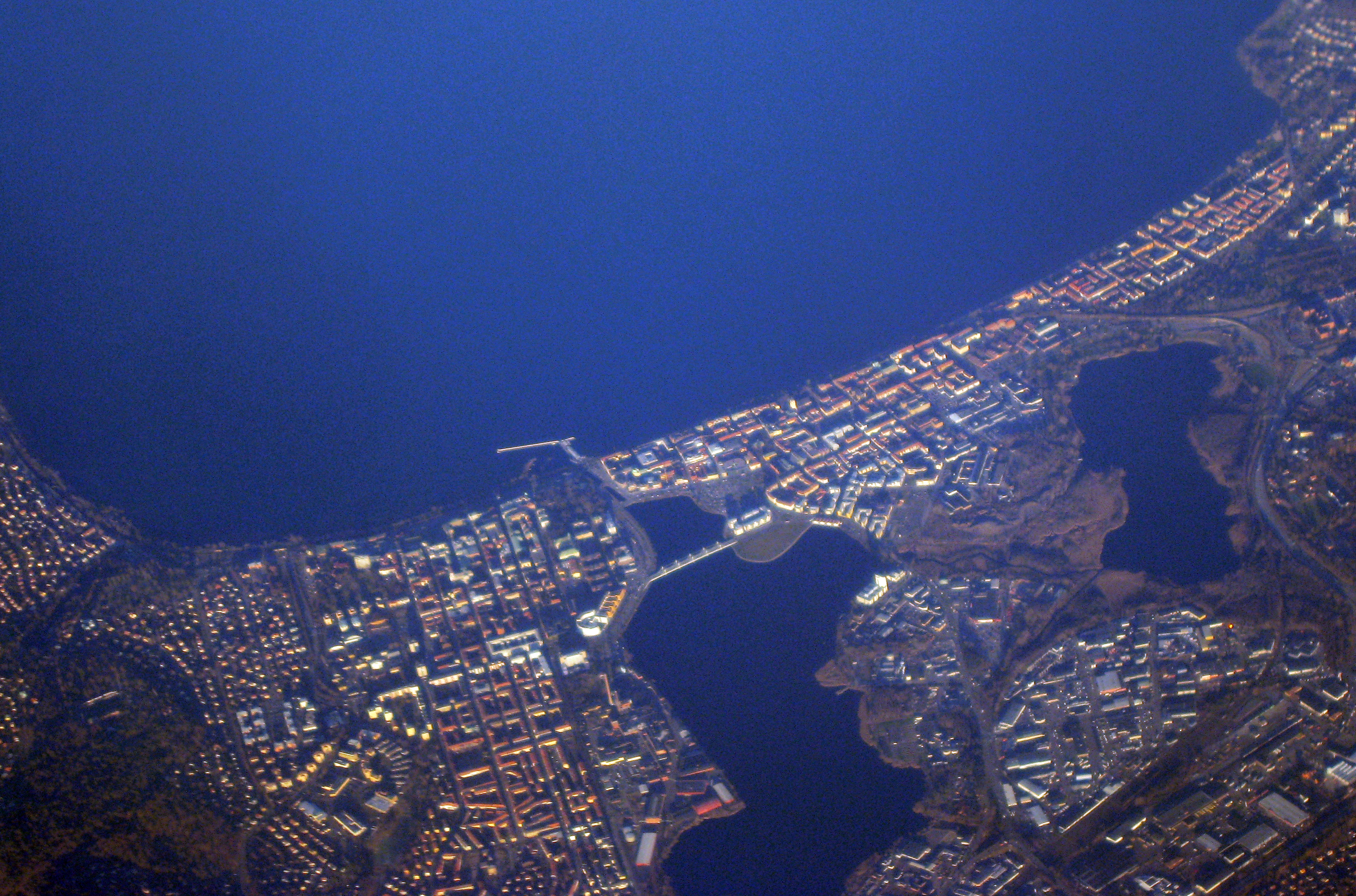 The town of Jönköping at the southern end of Vättern, second largest lake in Sweden.